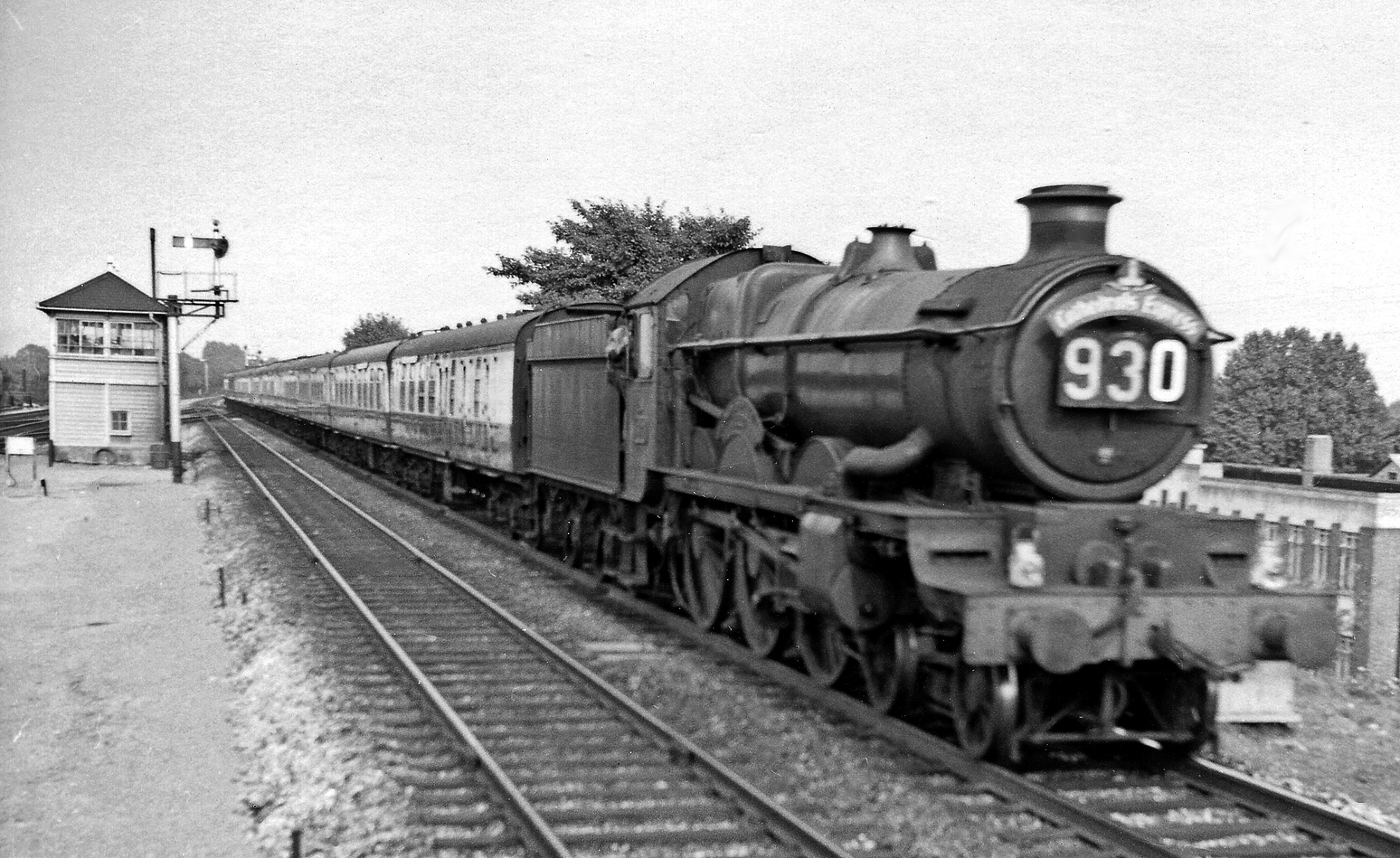 Down 'Cathedral Express' at Maidenhead. View eastwards, towards London; ex-GWR Paddington - Reading and the West main line. The 16.45 Paddington - Oxford - Worcester - Hereford express is headed by 'Castle ' 4-6-0 5071 'Spitfire' (built 6/38 as 'Clifford Castle', renamed 9/40, recently fitted with double-chimney, withdrawn 10/63). (What on earth has the driver got on his head?)